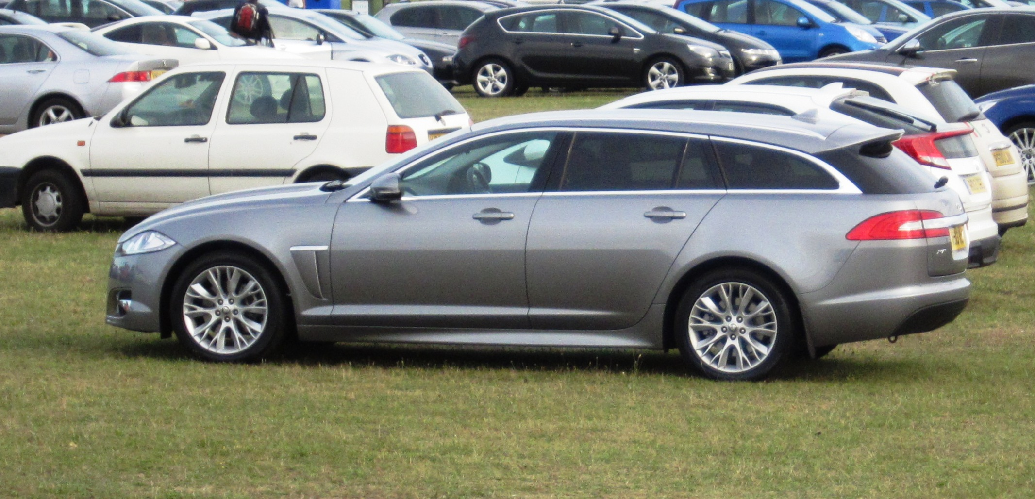 Jaguar XF Sportbrake (2013)